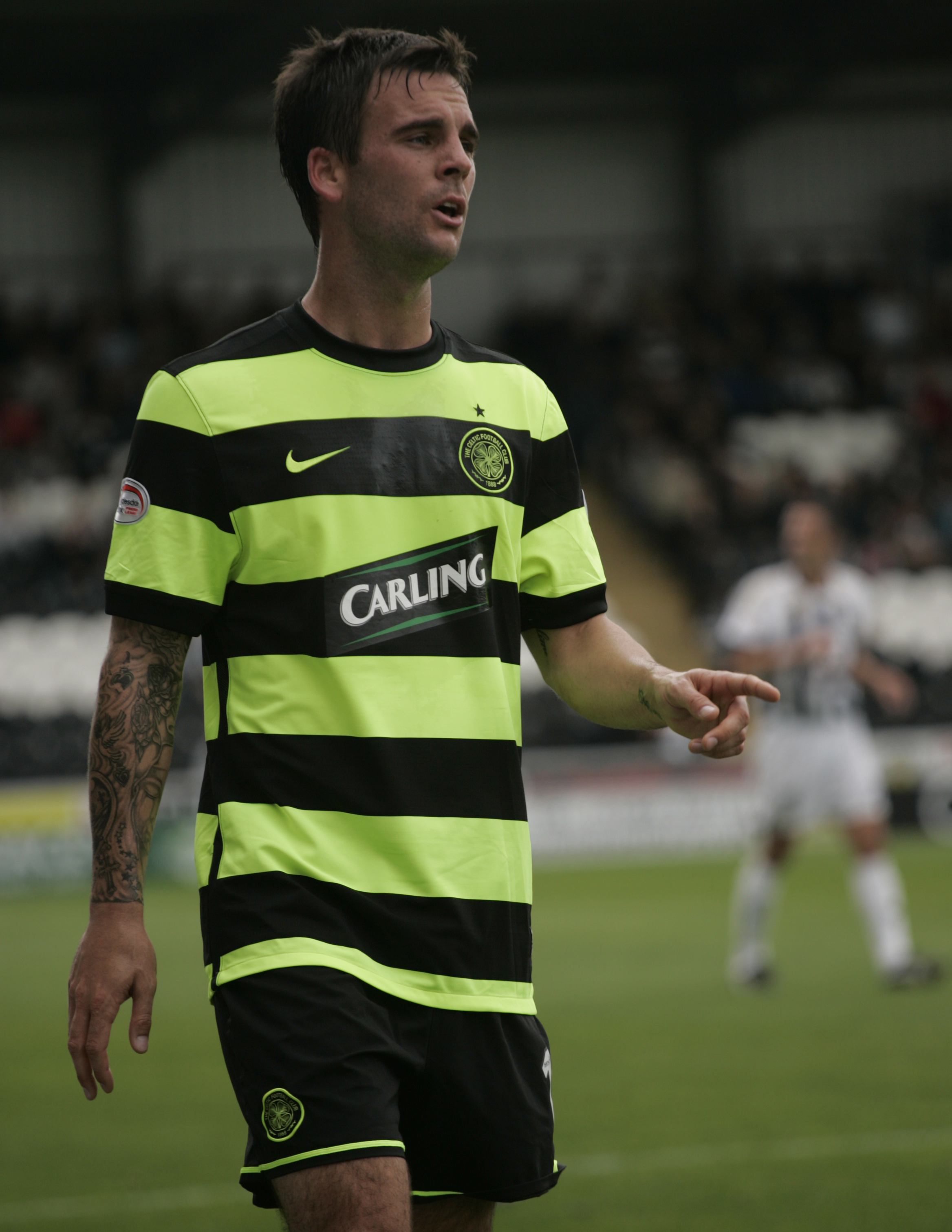 Danny Fox playing for Celtic F.C. in a Scottish Premier League match against St. Mirren F.C.